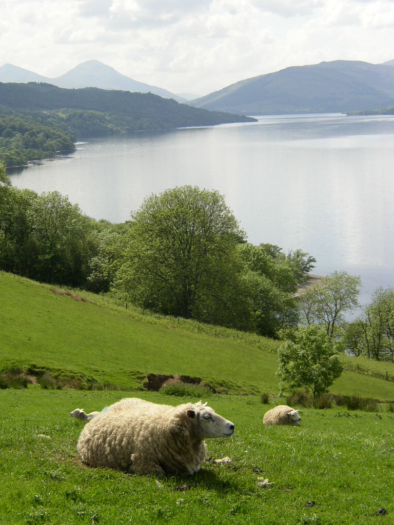 sheep of Loch Tay